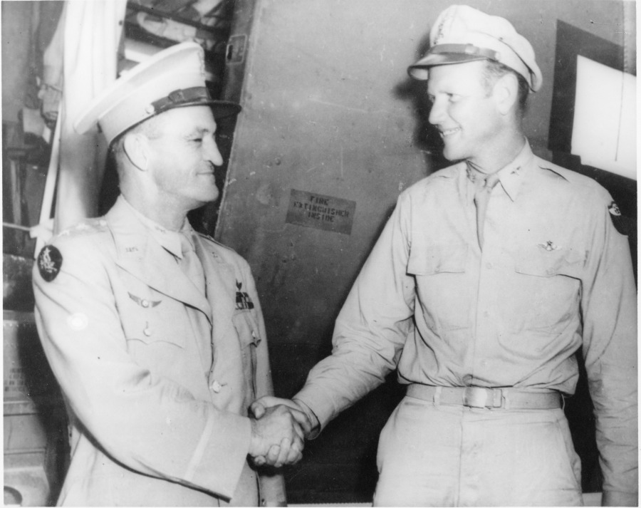 MGEN Claire Chennault (L) and COL David Lee "Tex" Hill